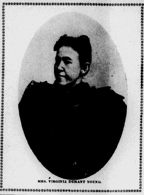 This photo appeared in a feature article on Virginia Durant Young published in The State newspaper on Sunday, March 13, 1904 on page 20. Virginia Durant Young was an American suffragist and newspaper editor active in South Carolina.